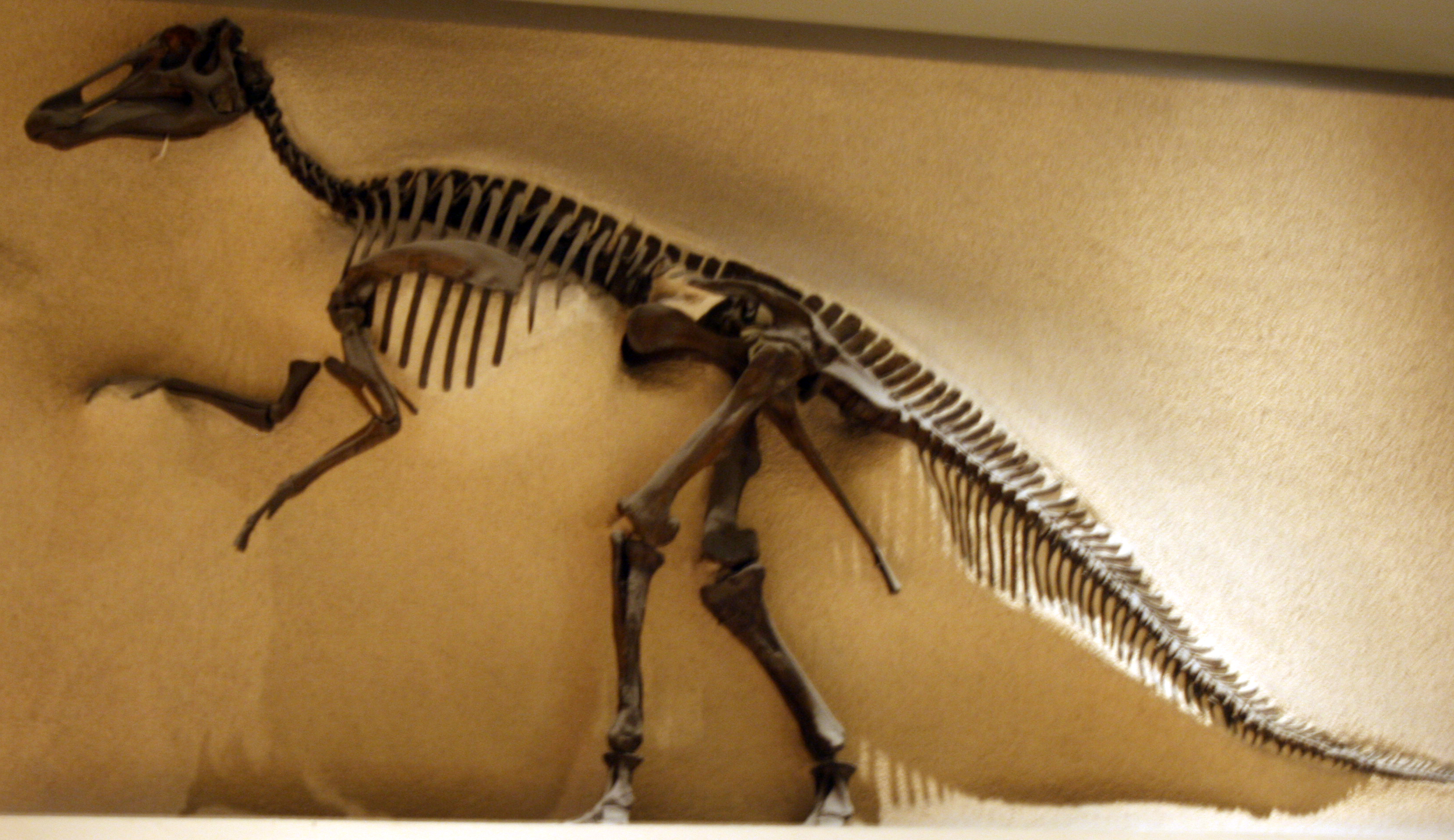 Natural History Museum, Smithsonian Institution, Washington, D.C. Complete indexed photo collection at .